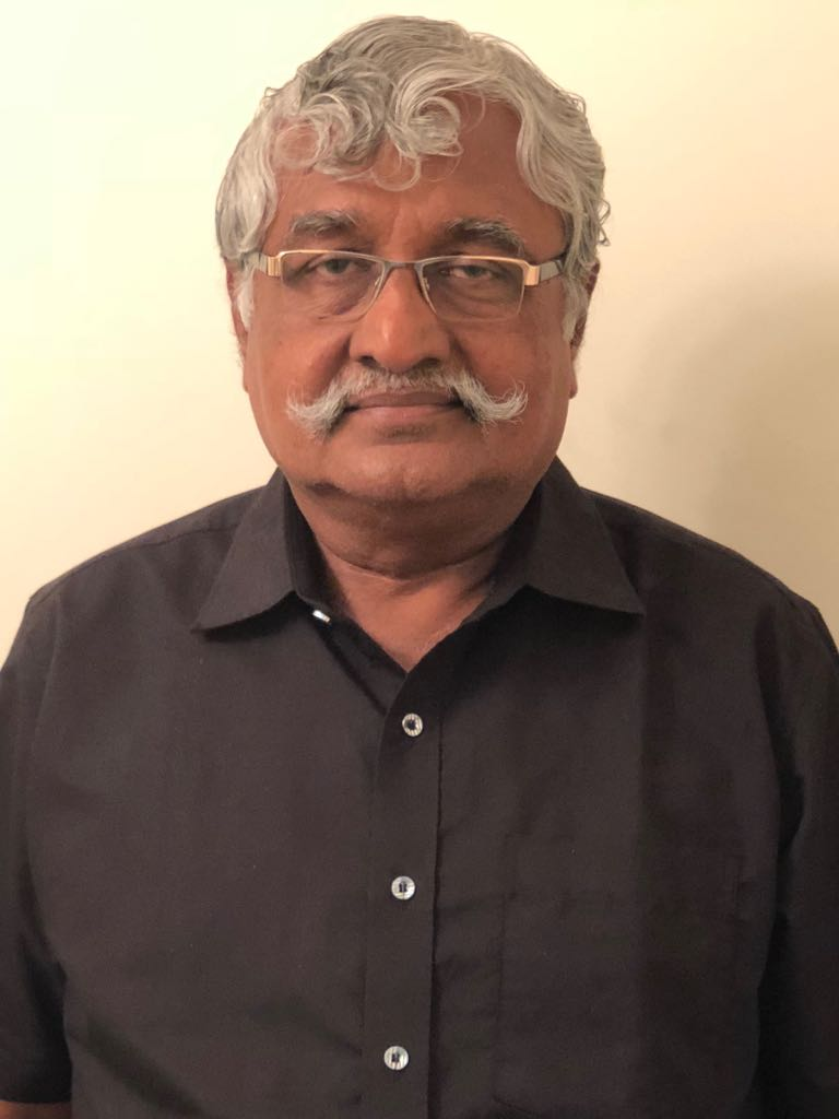 తమిళ రచయిత మరియు రాజకీయవేత్త